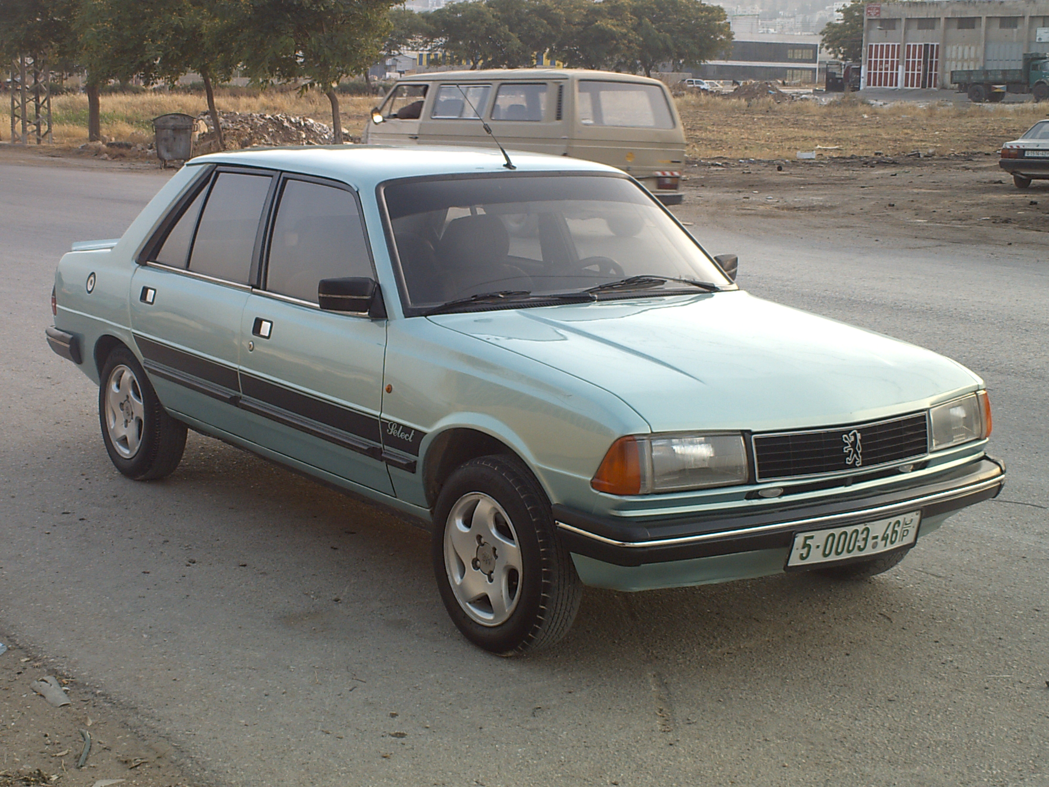 My Peugeot 305 for ever .. .. Images of vanishing cars .. ..